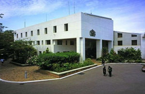 British High Commision Building in Accra